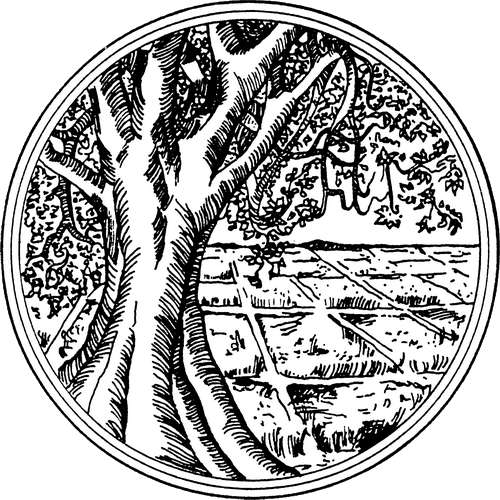 Provincial seal of Maha Sarakham province.